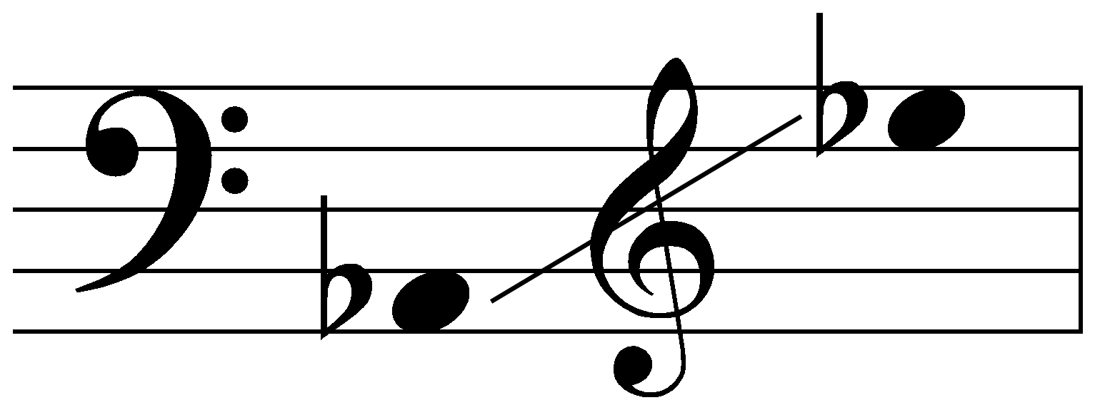 Sounding range of tenor saxophone, created using Finale